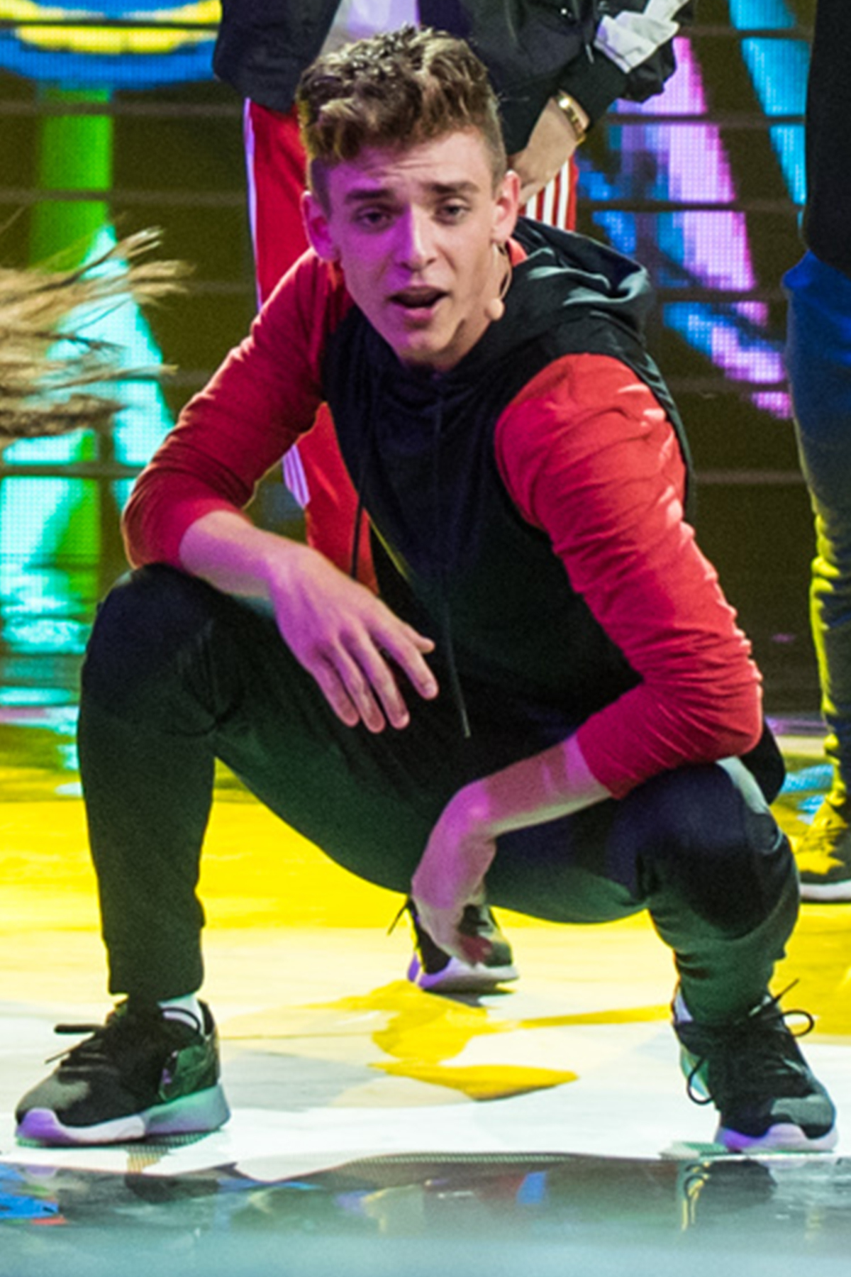 Josh Beauchamp performing at The Voice Kids Russia, in April 2018.